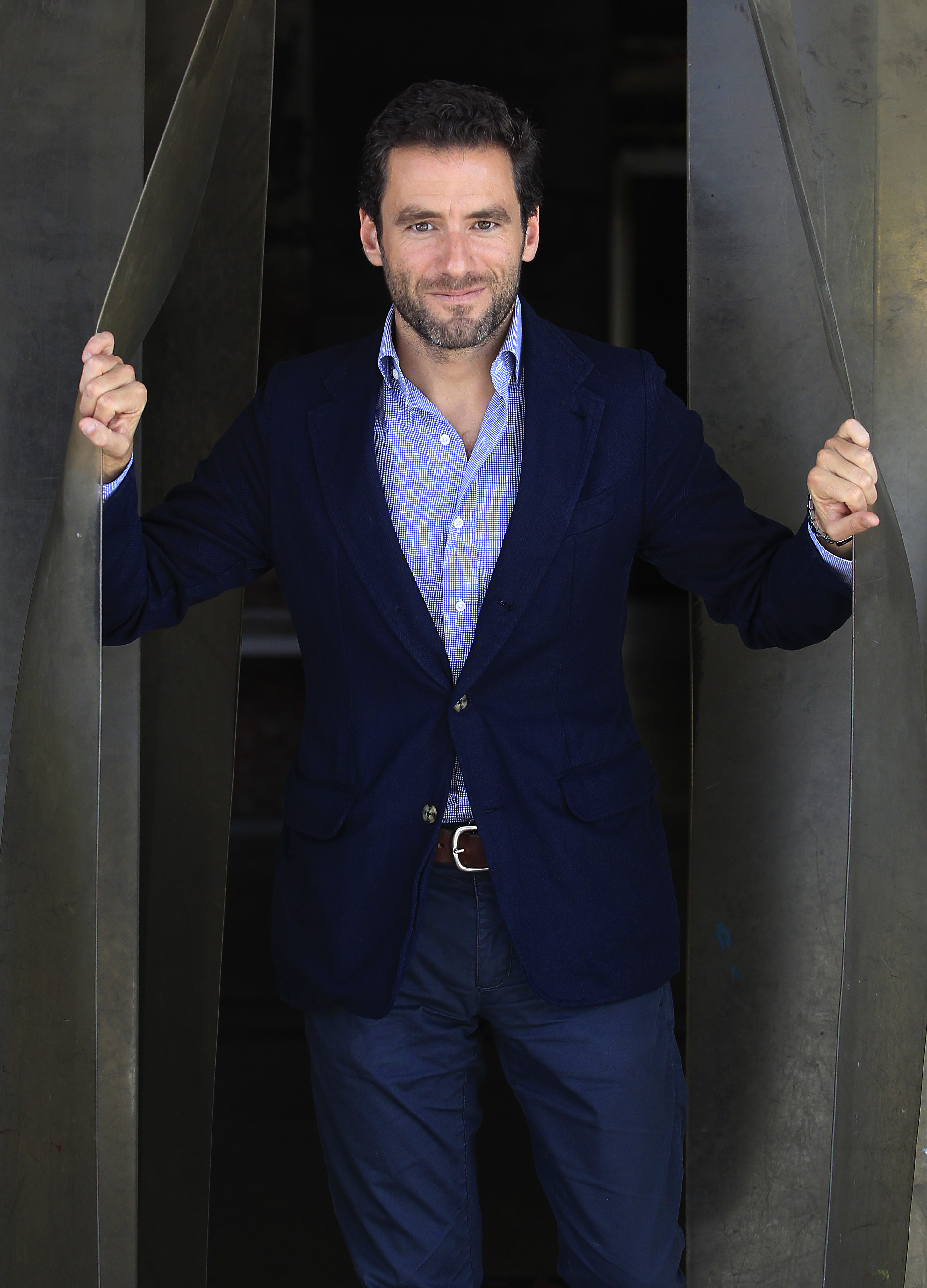 El presidente del PP de Guipúzcoa, Borja Sémper.